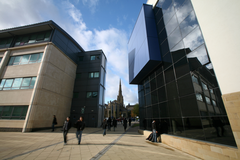 A shot of Queensgate Campus, including the Harold Wilson building (left) and the Creative Arts Building (right)